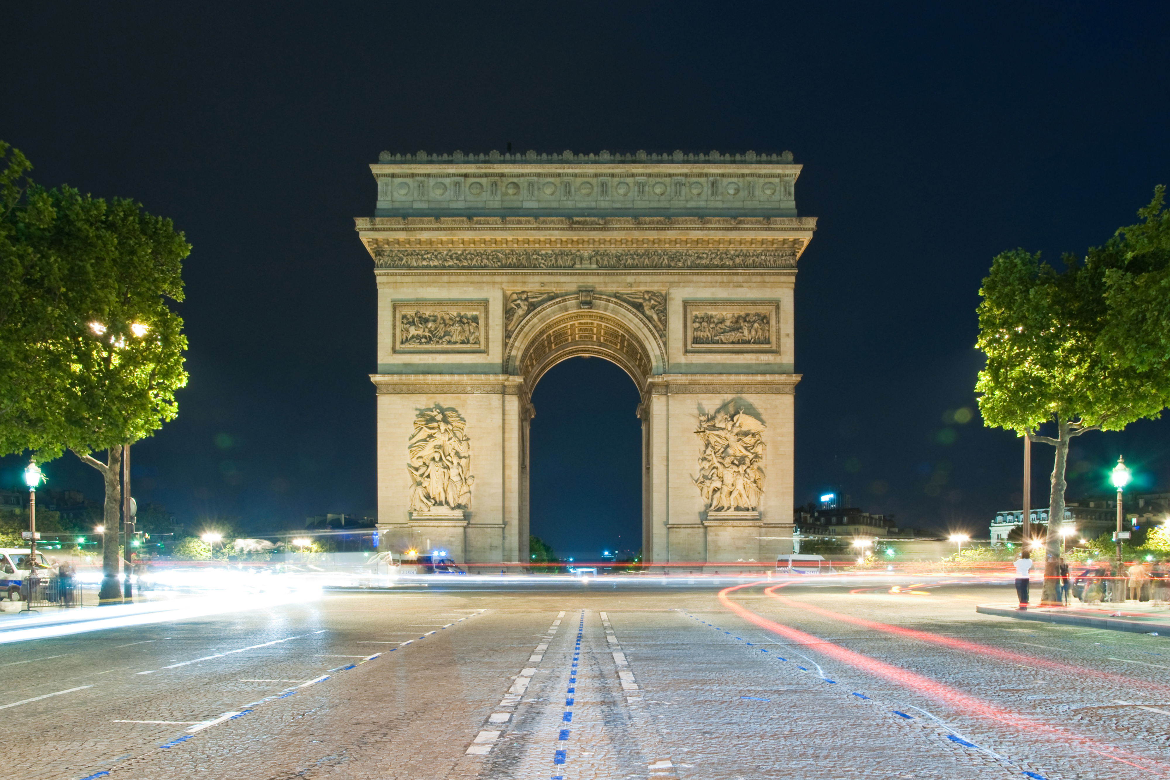 Arc by Night